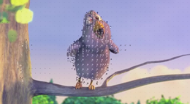 Visualisation of motion vectors in a frame from a H.264 encoding of the open shortfilm Big Buck Bunny